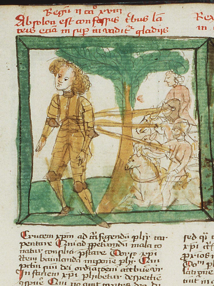 Absalom, hanging on his hair that is tangled in the branches of an oak, he is pierced by Joab. From Speculum Humanae Salvationis of Germany (manuscript "Den Haag, MMW, 10 C 23") Museum Meermanno and Koninklijke Bibliotheek